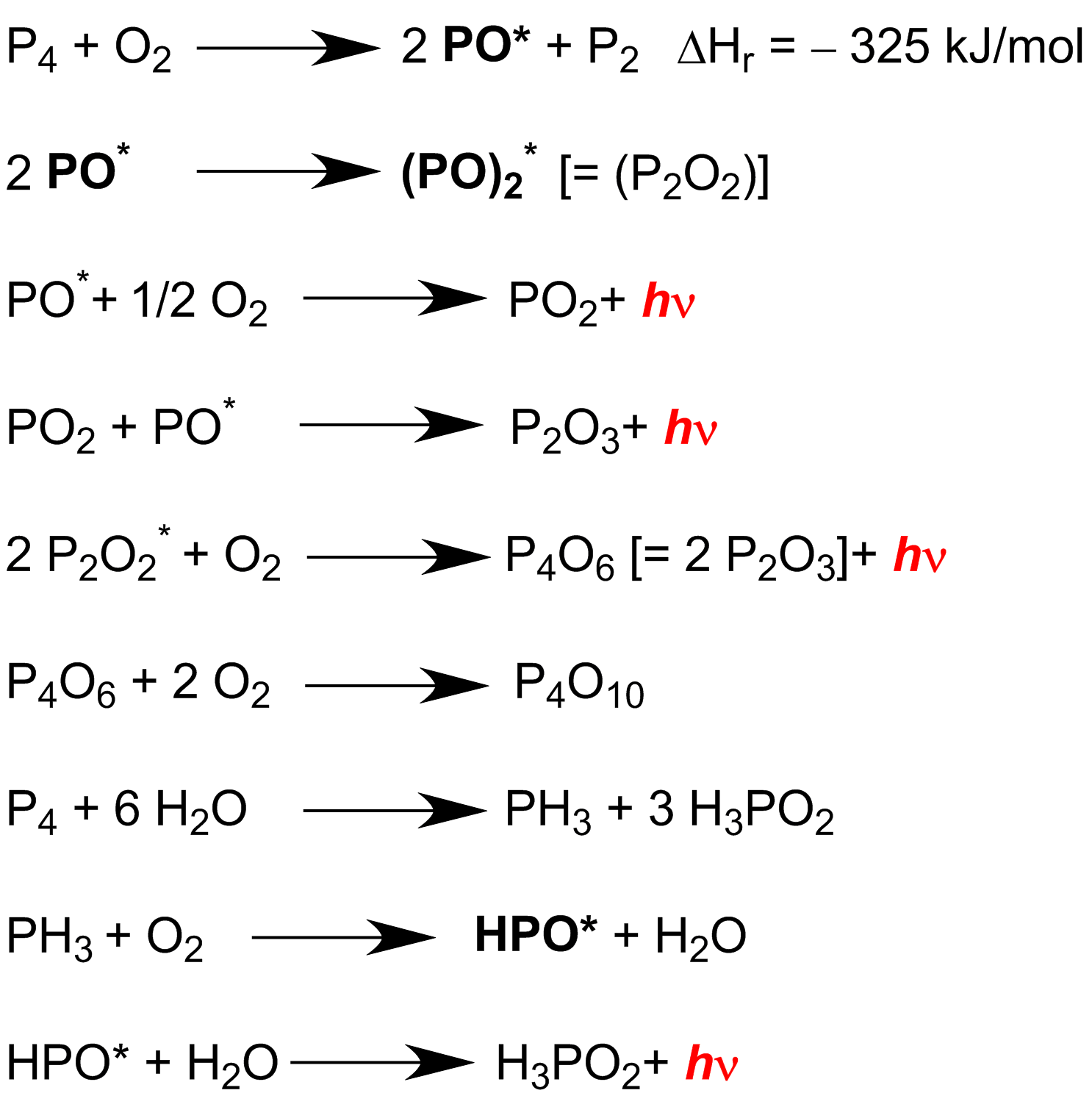 The Mechanism of the glow of white Phosphorus.